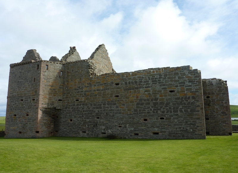 Noltland Castle, Westray, Orkney, Scotland.